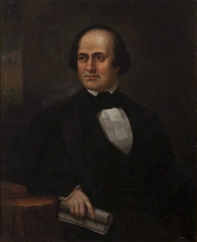 Aaron Ward, Major General of the New York Militia and Member of Congress.